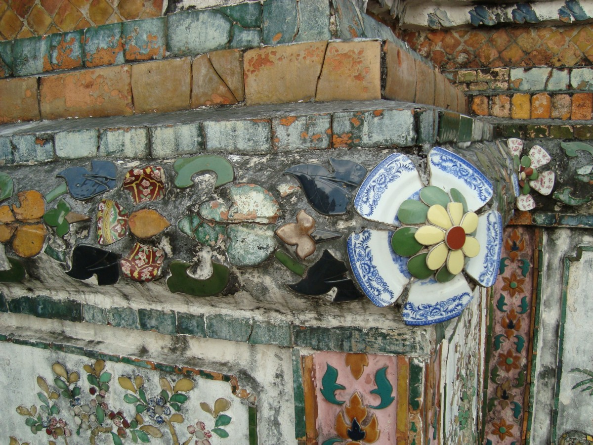 Wat Arun in Bangkok Yai District, Bangkok, Thailand.